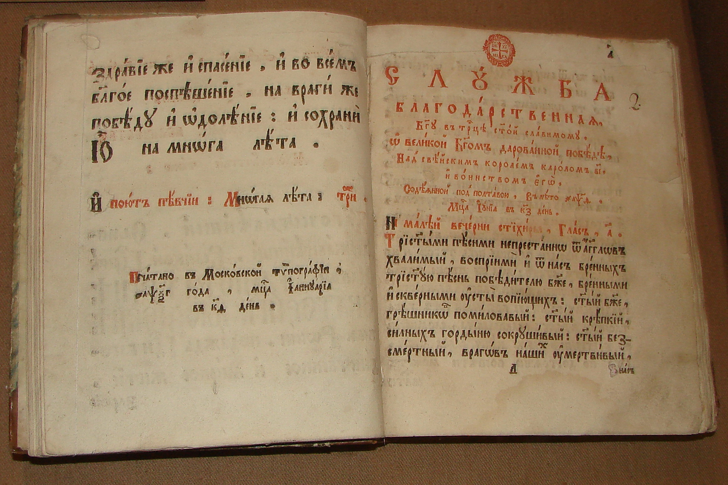 «Slugebnik», ancient book, 1763 year «Служебник» богослужебная книга 1763 год издания